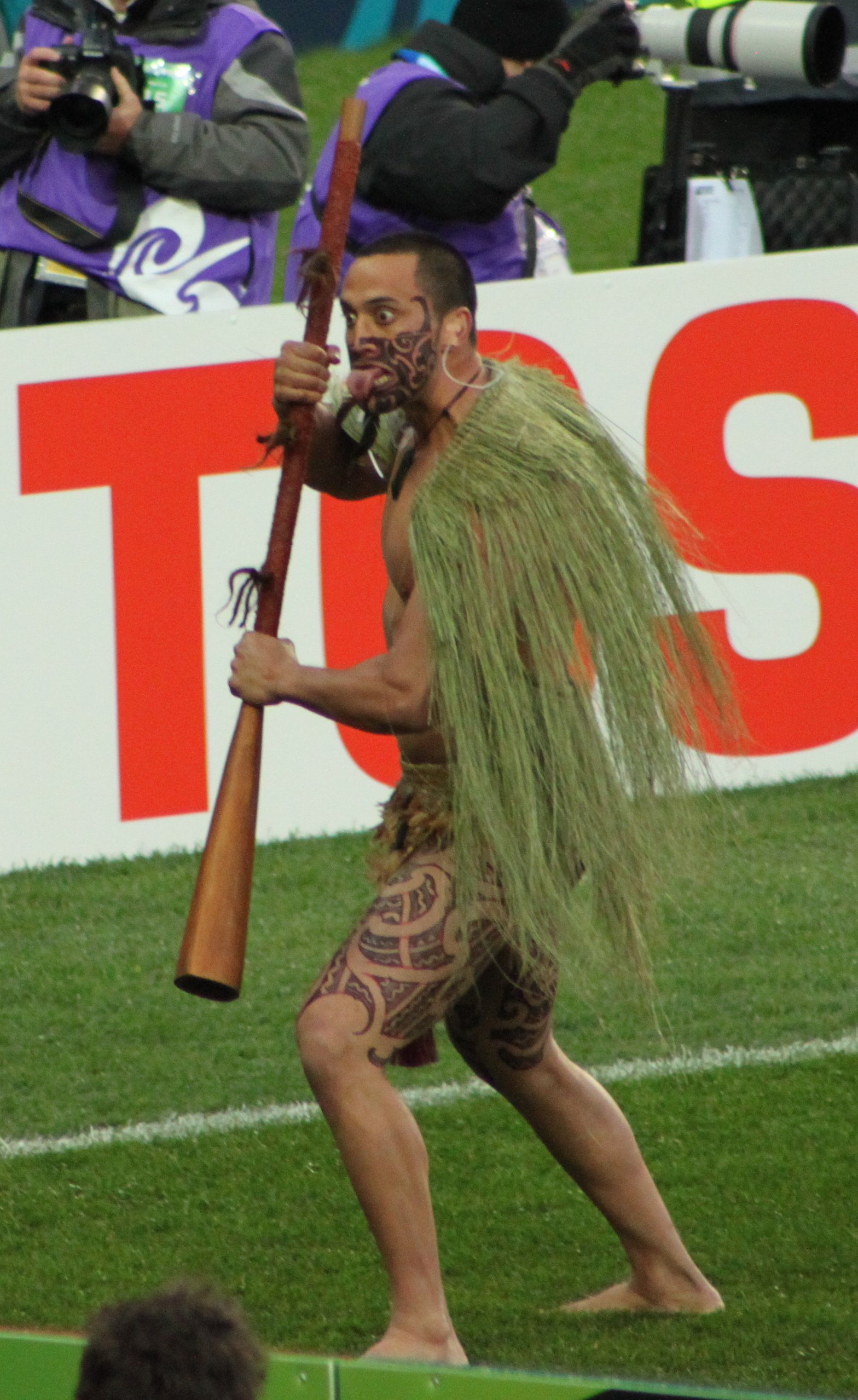 Māori trumpeter playing pūkaea before Rugby World Cup match between South Africa and Fiji.